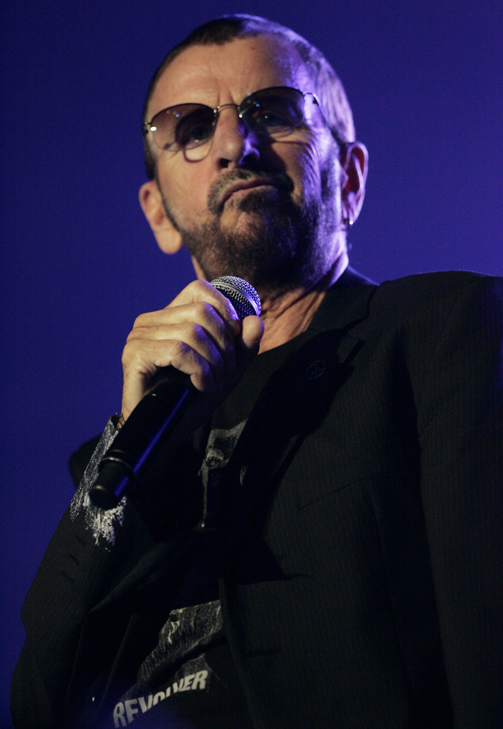 Ringo Starr and his All-Starr Band play the Hordern Pavilion in Sydney, Australia.